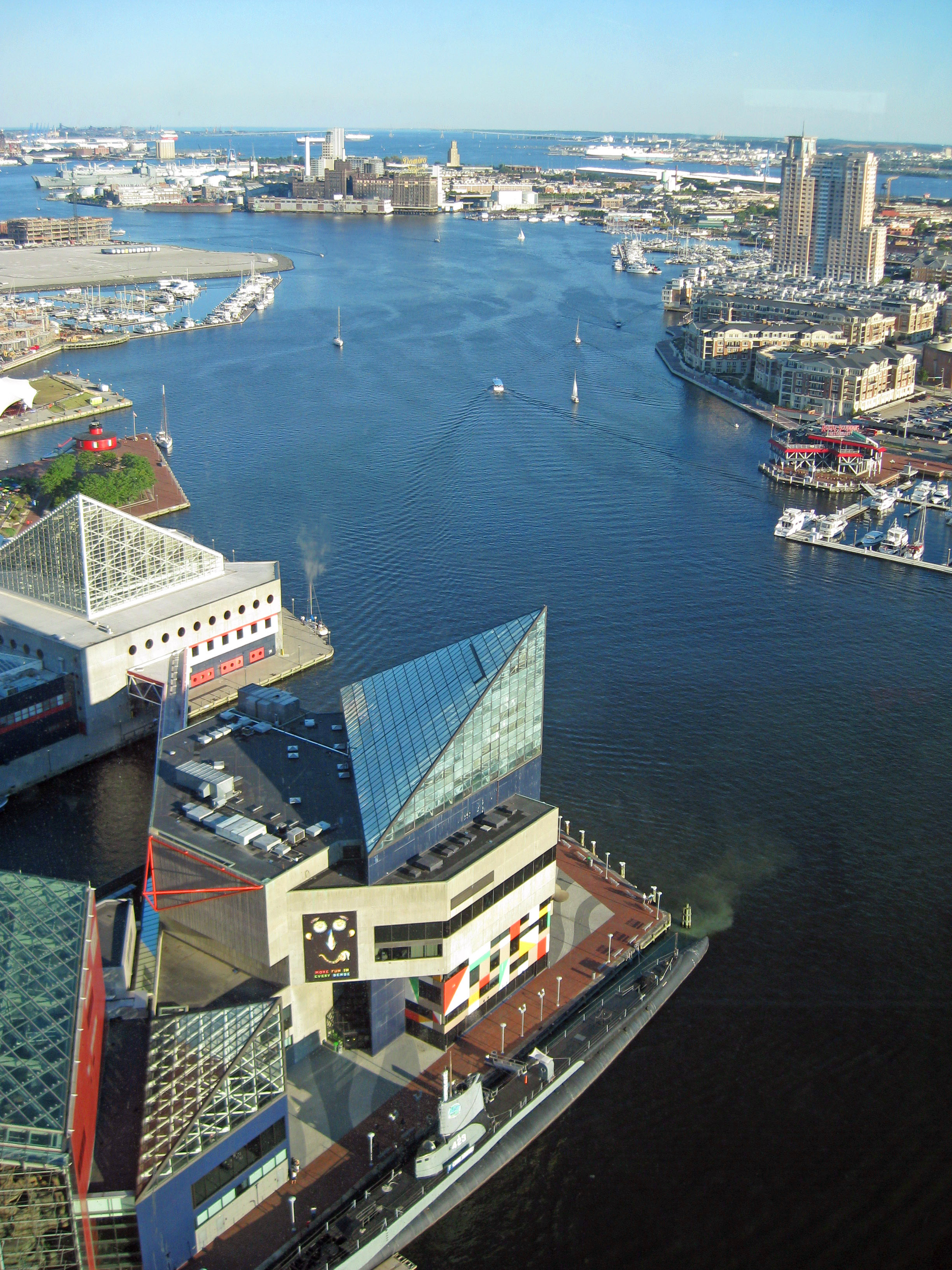 Baltimore Harbor as seen from World Trade Center.